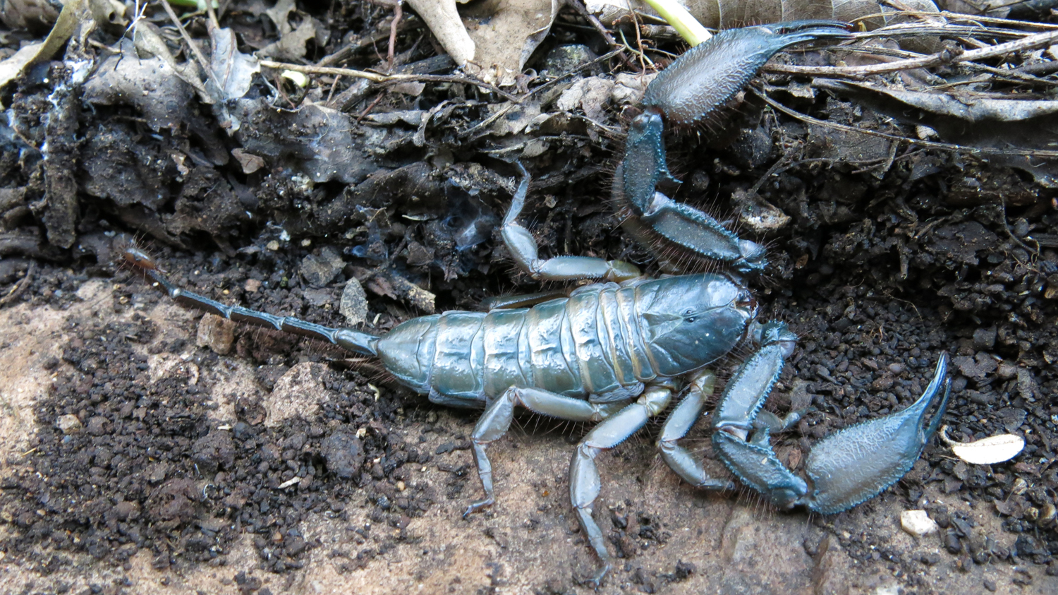 Hadogenes soutpansbergensis, adult female. Soutpansberg, South Africa